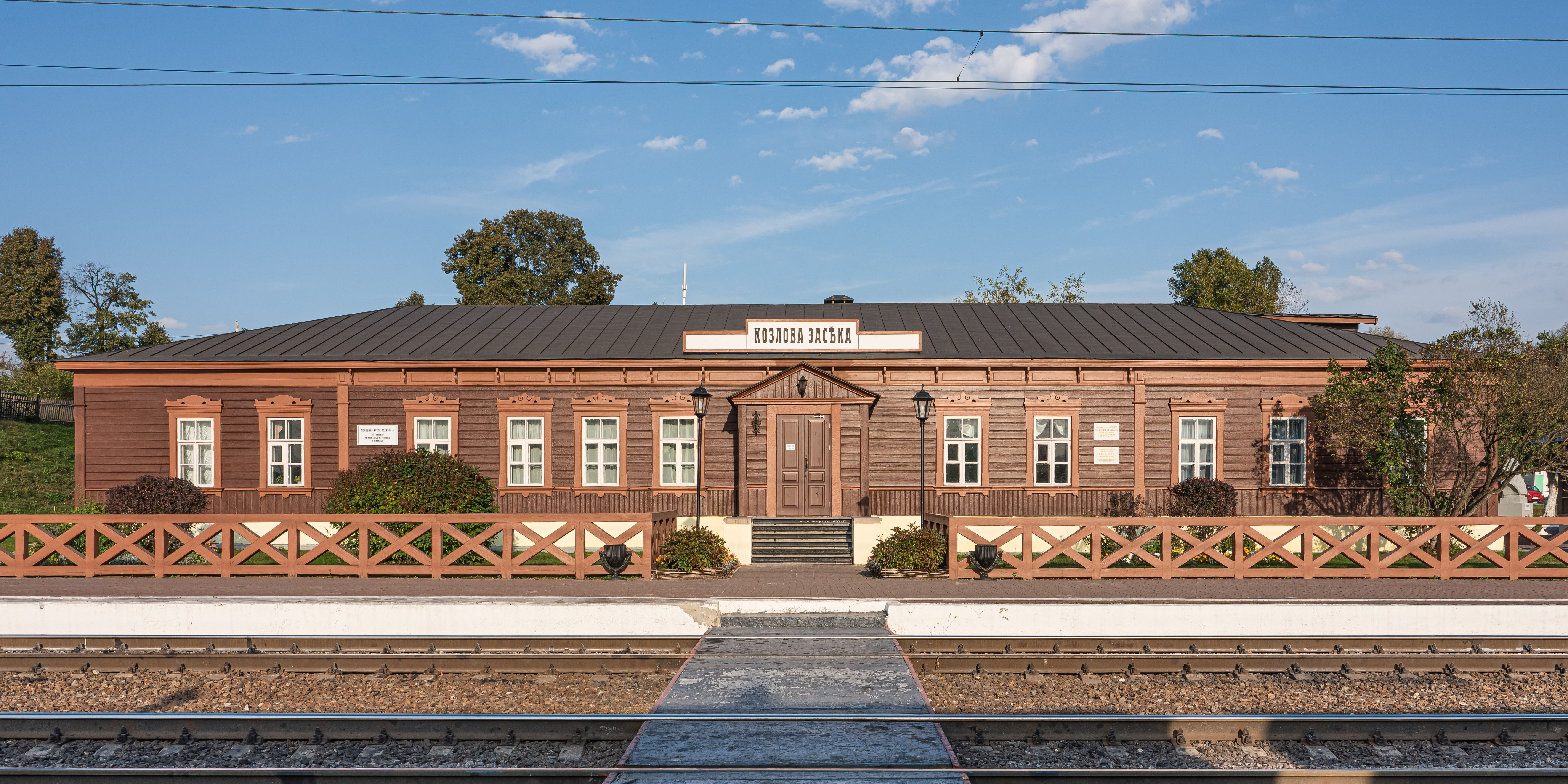 Yasnaya Polyana (or Kozlova Zaseka) railway station in the surroundings of Yasnaya Polyana estate near Tula, Russia